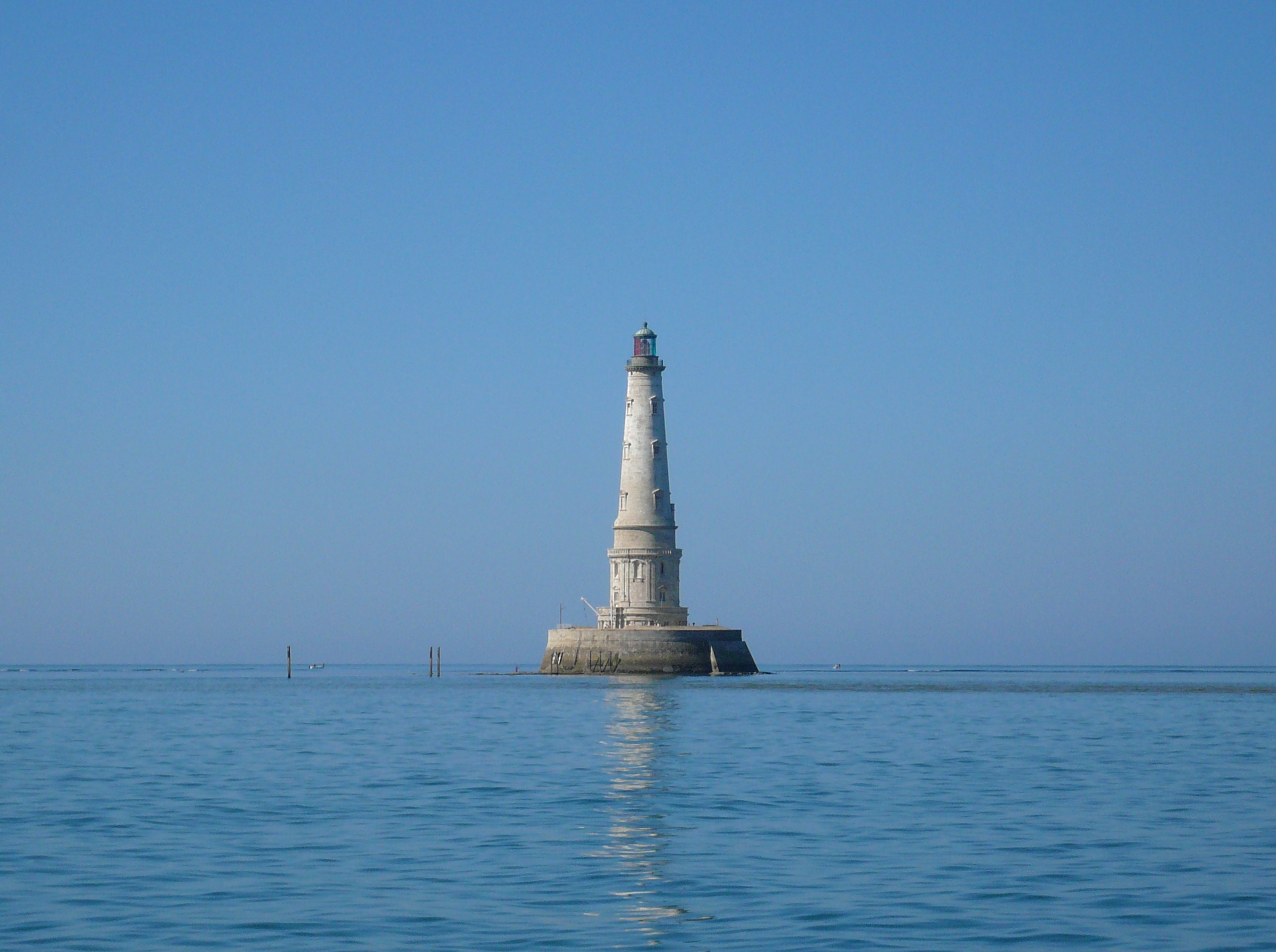 The Cordouan lighthouse during the rising tide.